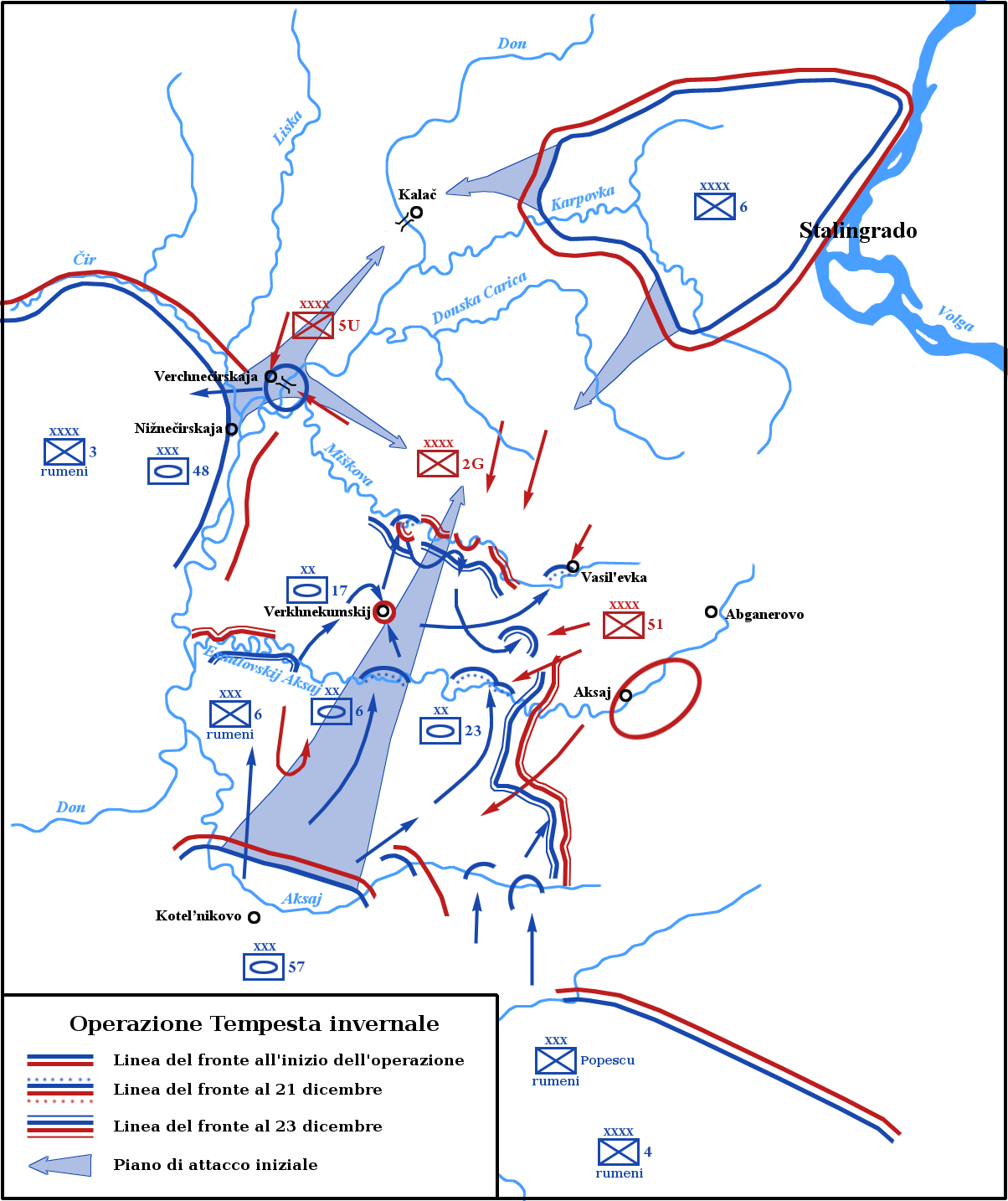 Operation Winter Storm, Eastern front, World War 2. 12 December - 23 December 1942. Italian version